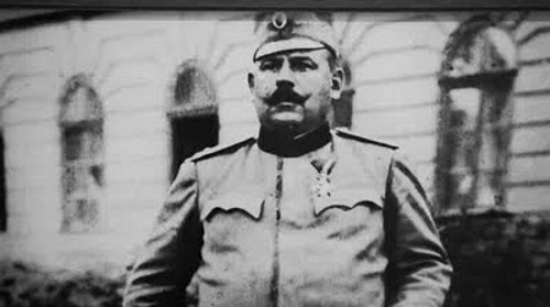 Dragutin Dimitrijević "Apis" (1876–1917) – a Serbian colonel and member of the "Black Hand"